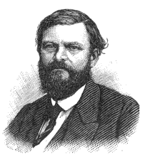 Tennessee Governor Dewitt Clinton Senter (1830–1898).